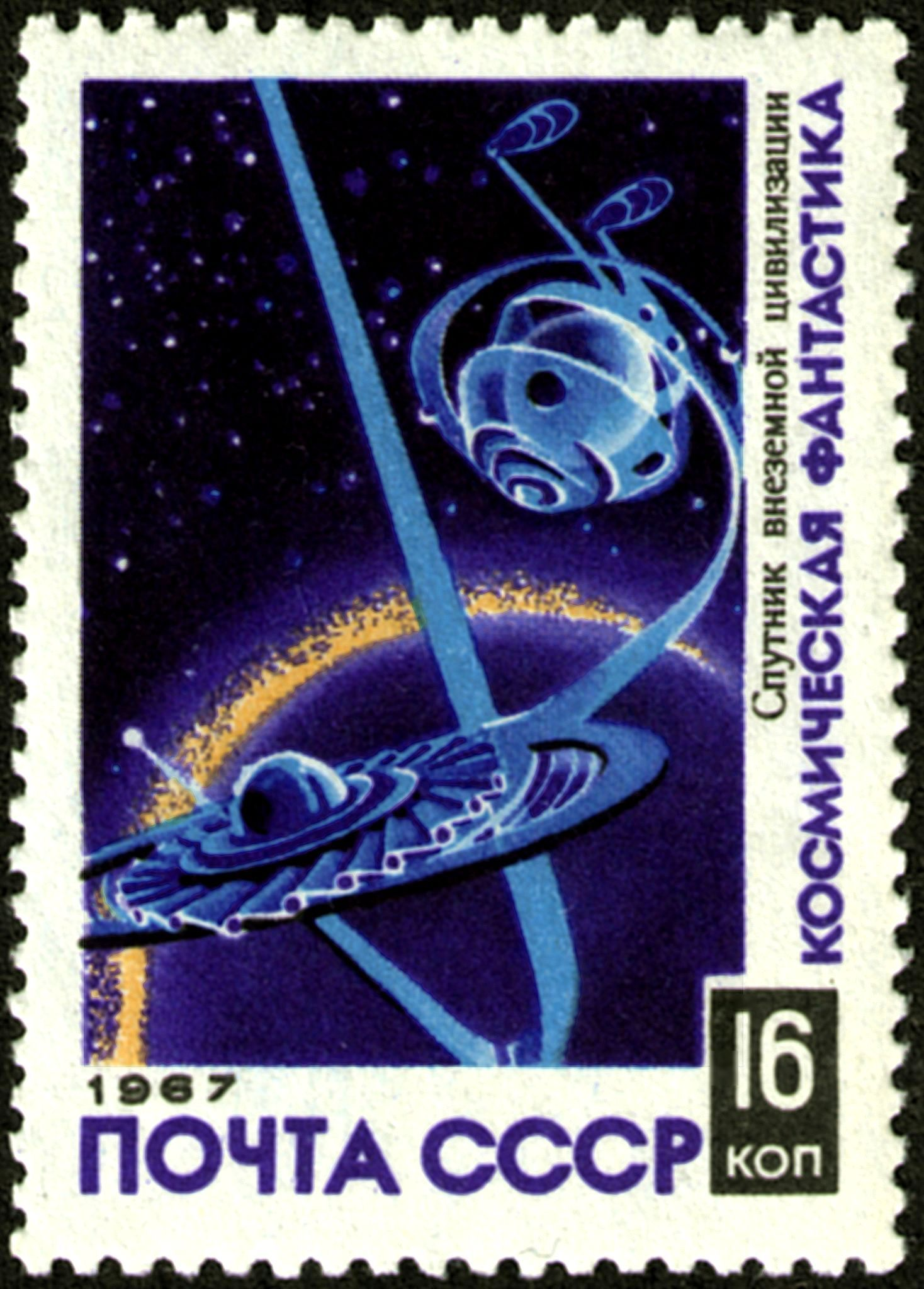 Science fiction.Satellite of Extraterrestrial Civilization by Andrey Sokolov (1931–2007). Paper, tempera. 1965–1966[1].The stamp of the Soviet Union, 16 kopecks, 20 October 1967, CPA Catalogue No 3549, Michel No 3407, Scott No 3386, Yvert No 3286. Coated paper. Offset printing. Perforation: comb 12×12½. Size of the stamp: 32×40 mm. Print run: 3,000,000.